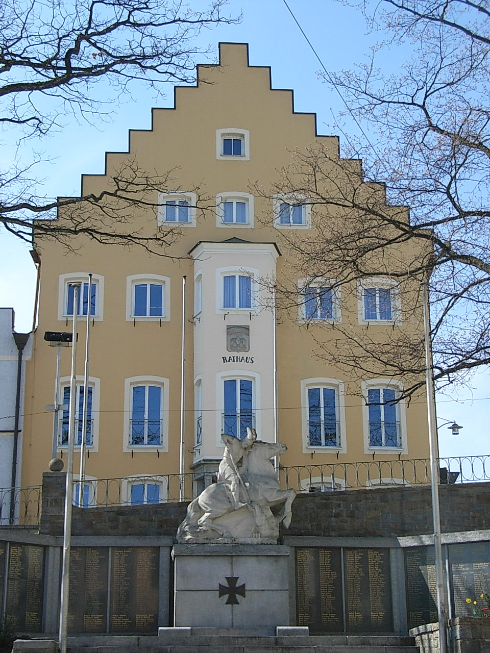 Regen, war memorial and town hall.